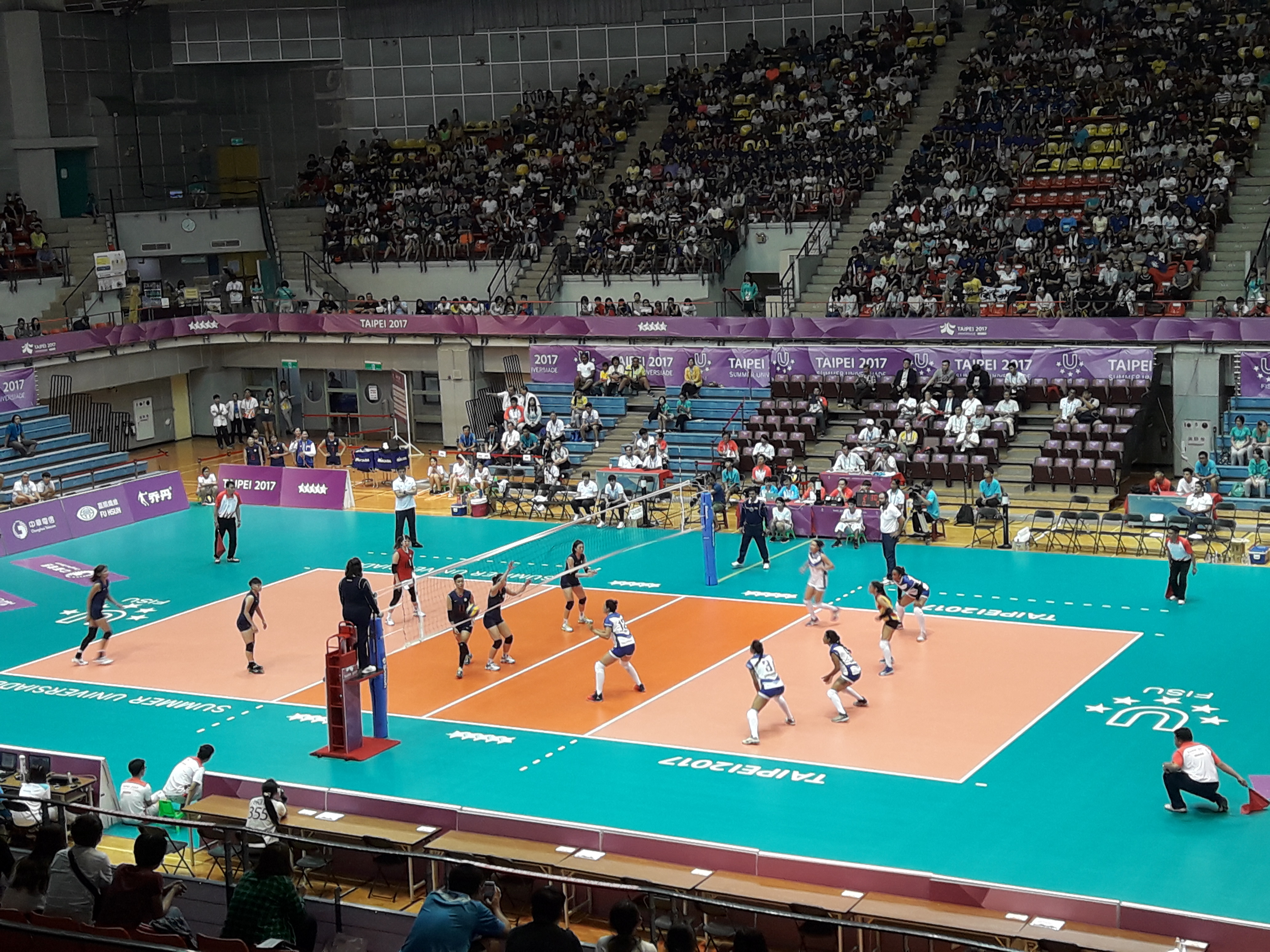 Volleyball at the 2017 Summer Universiade - Women's TPE-COL (23 August)